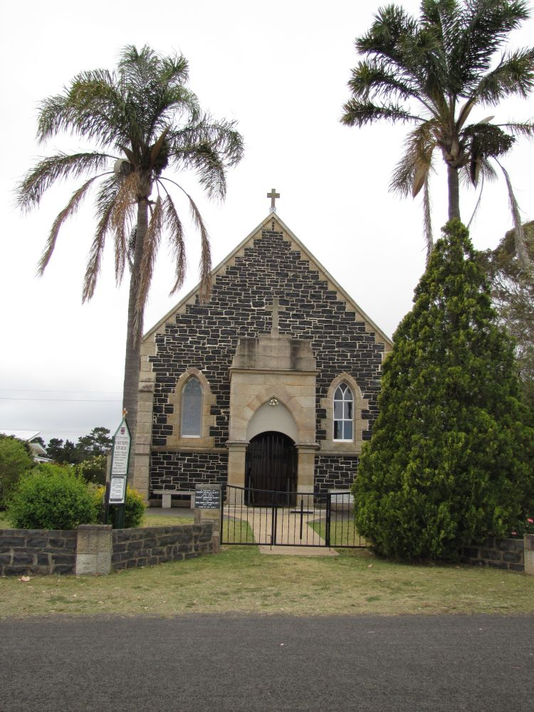 St Matthew's Church of England (2012) - entrance gates